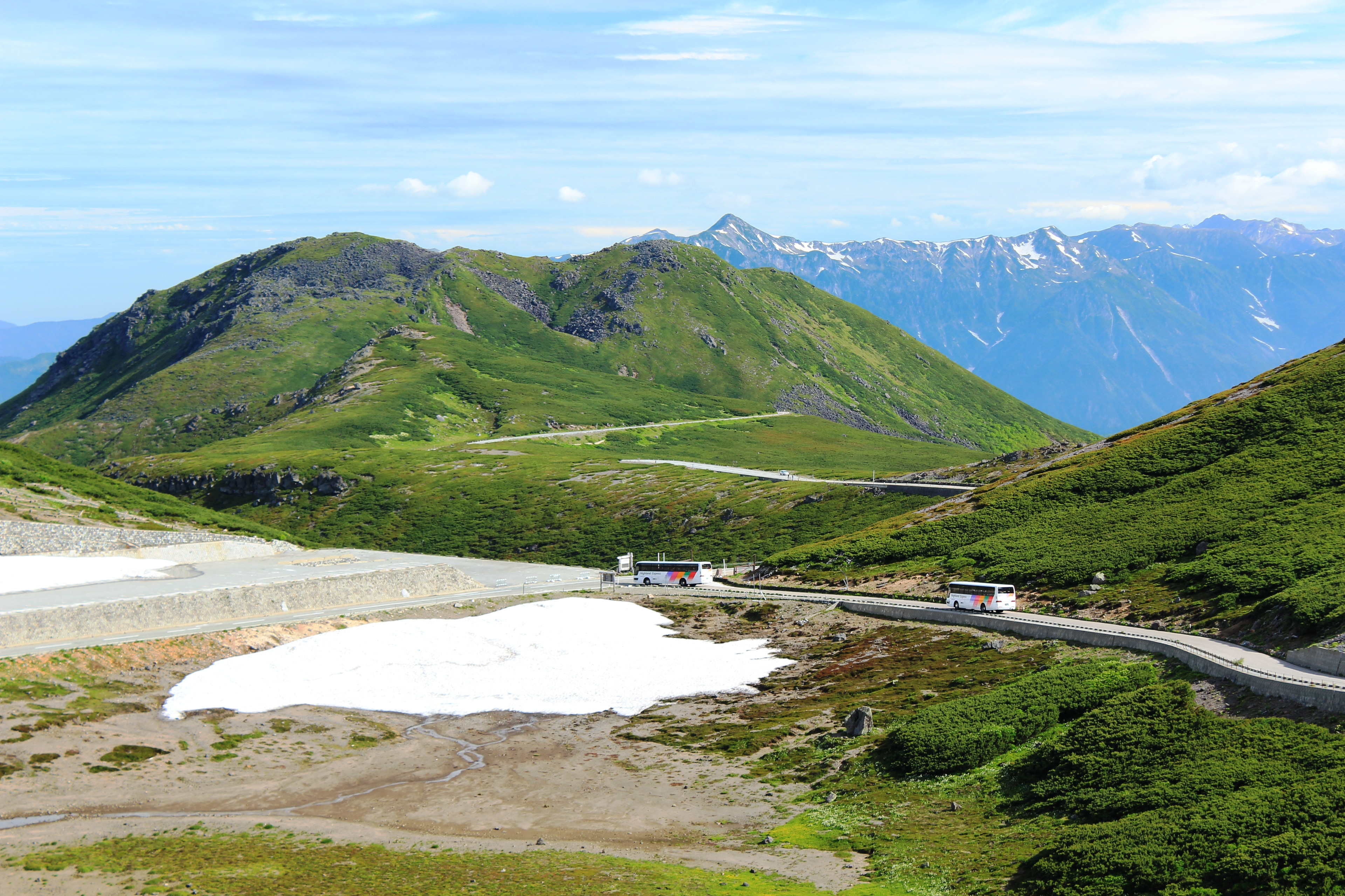 Mount Onyu and Mount Yotsu of Mount Norikura and Norikura Skyline seen from Mount Fujimi, in Nagano pref. and Gifu pref., Japan.